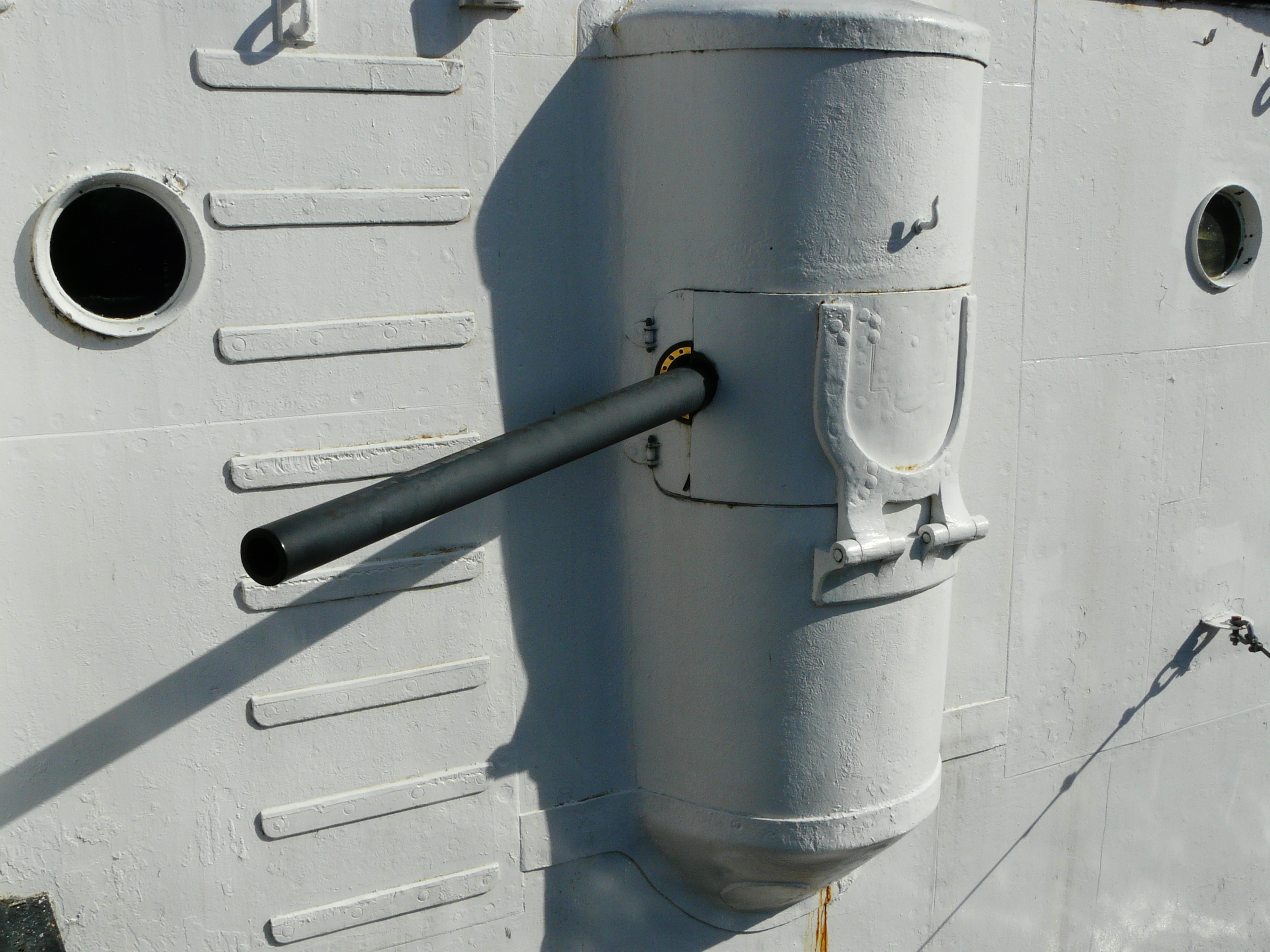 USS Olympia (C-6)